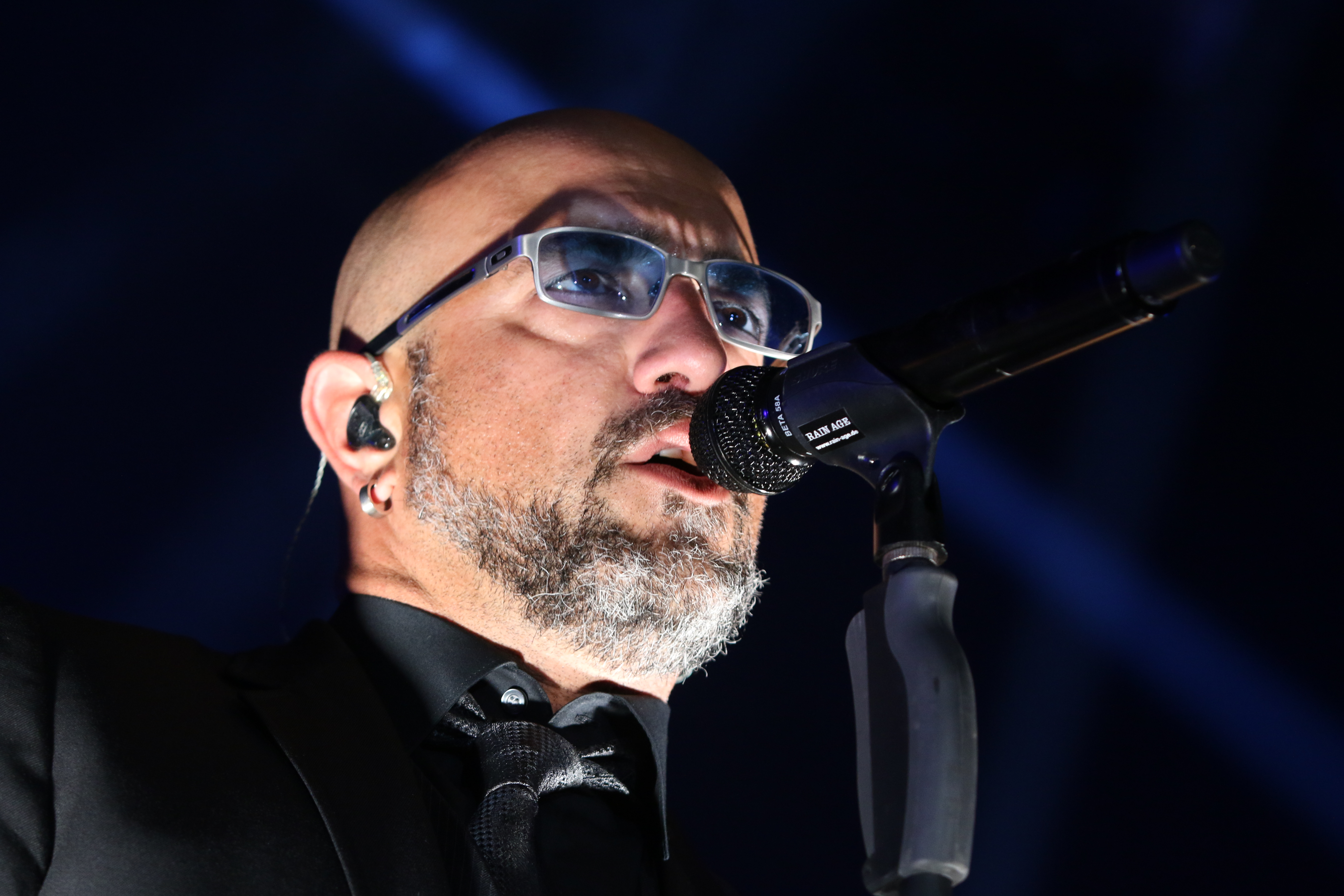 Eisbrecher at the Zelt-Musik-Festival in Freiburg im Breisgau on July 17th, 2016.